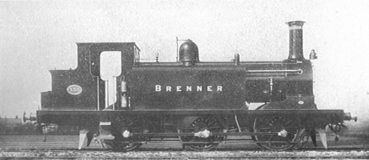 Stroudley's Goods Tank for the London, Brighton and South Coast Railway E1 class, 155 Brenner